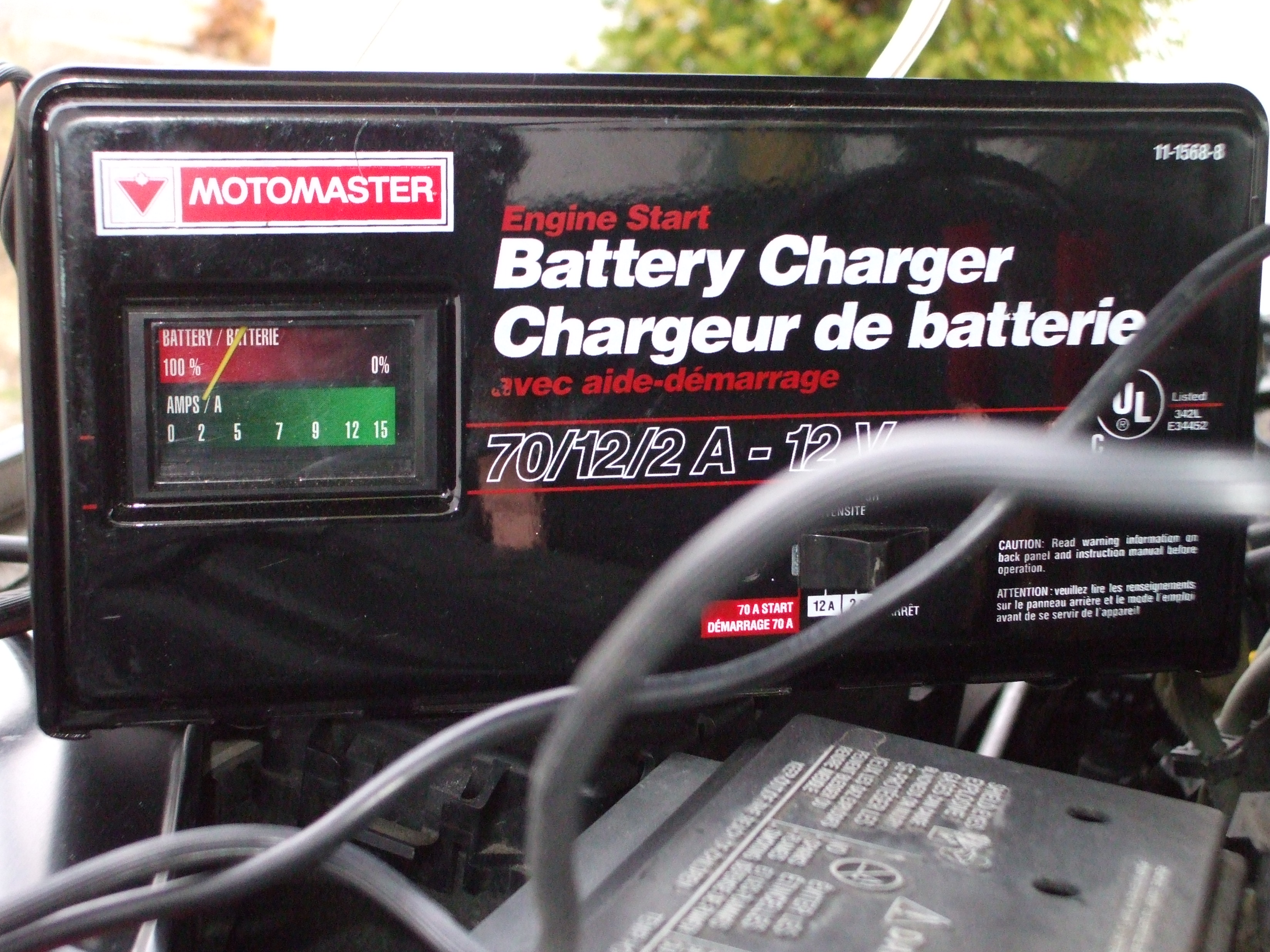 Car battery charger.